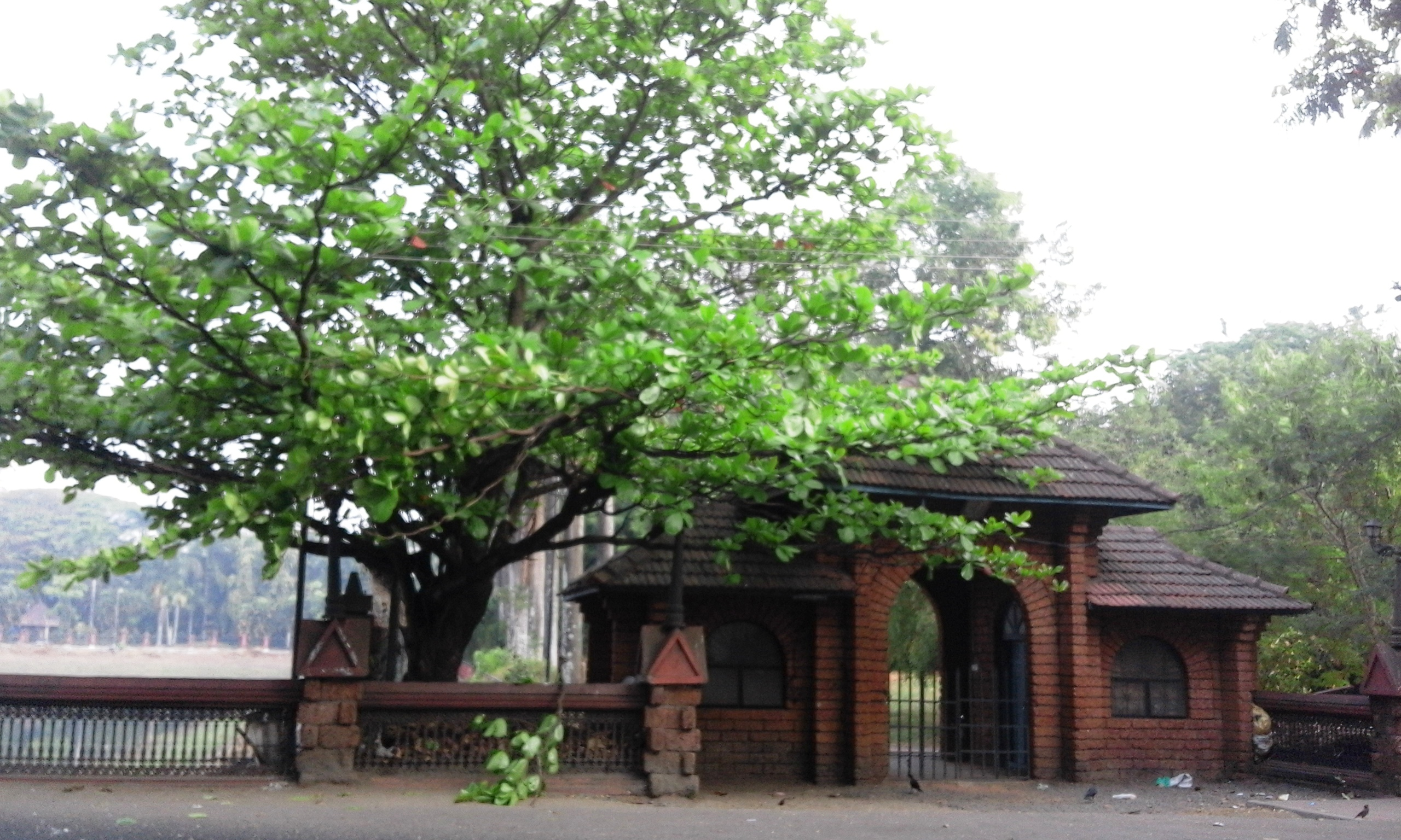 Kozhikode District, Kerala province, India.